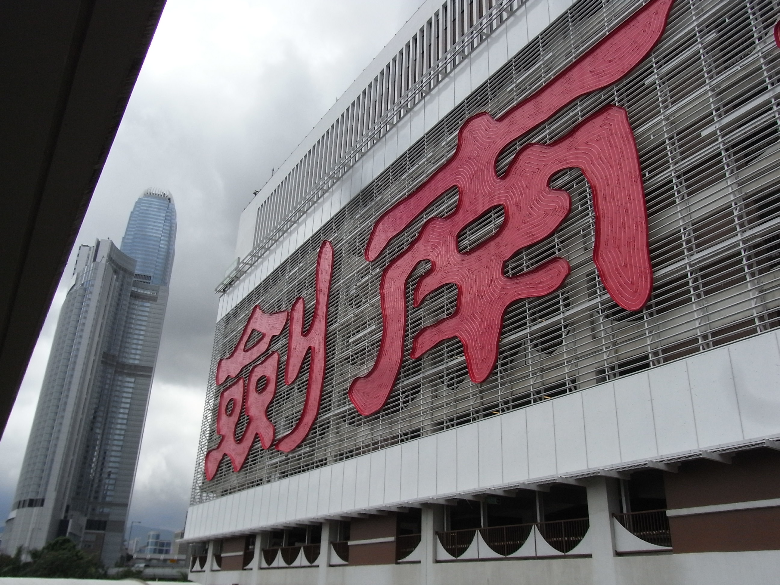 上環, Sheung Wan, Hong Kong